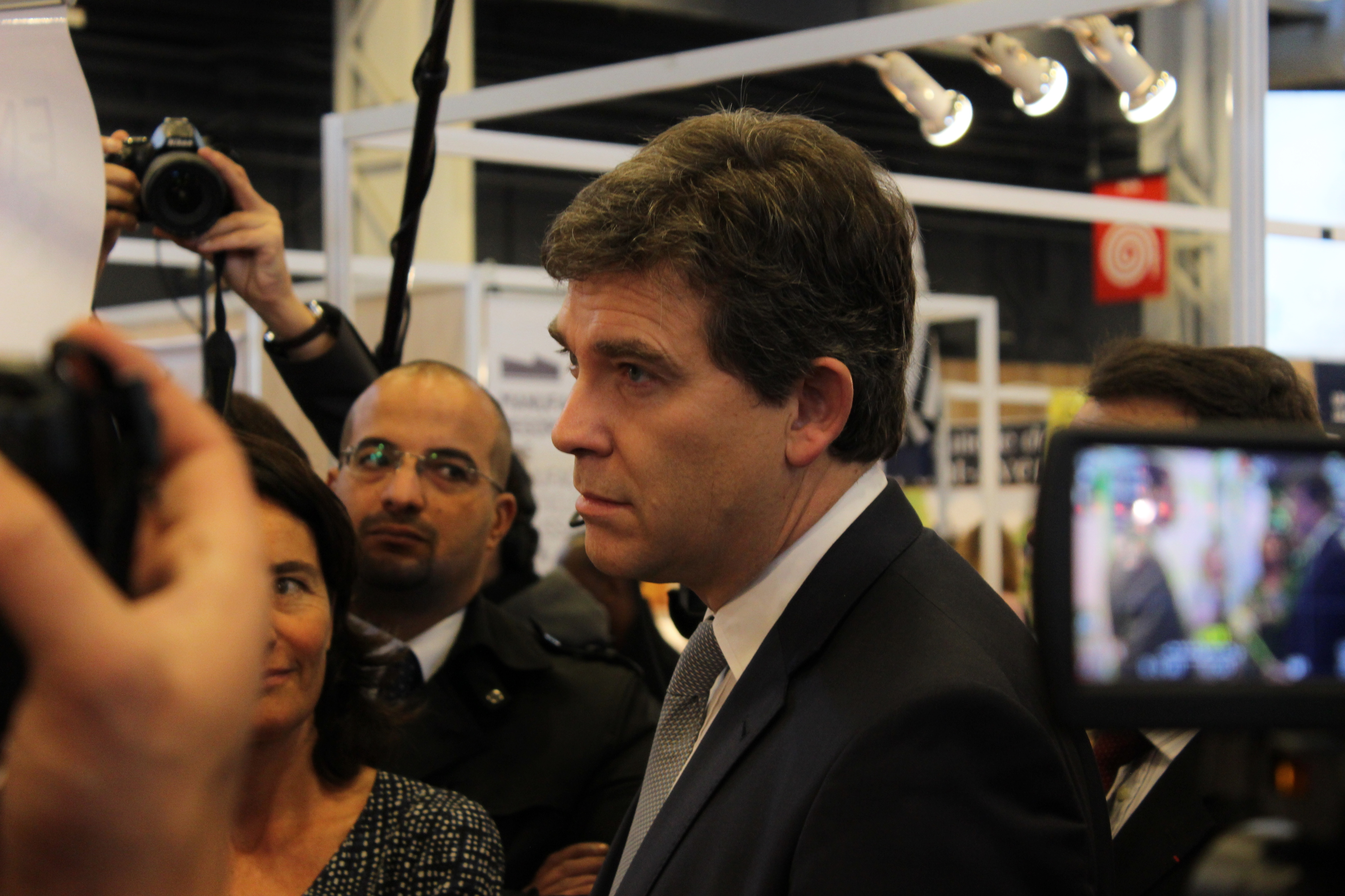 Arnaud MONTEBOURG, ministre du Redressement Productif, de l'économie et du Numérique inaugurait le salon MIF Expo.